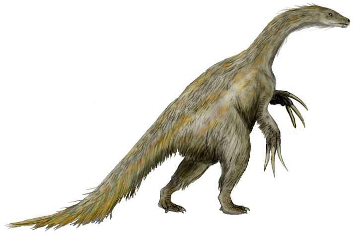 Nothronychus mckinleyi, a therizinosaur from the Middle Cretaceous of North America, pencil drawing, digital coloring